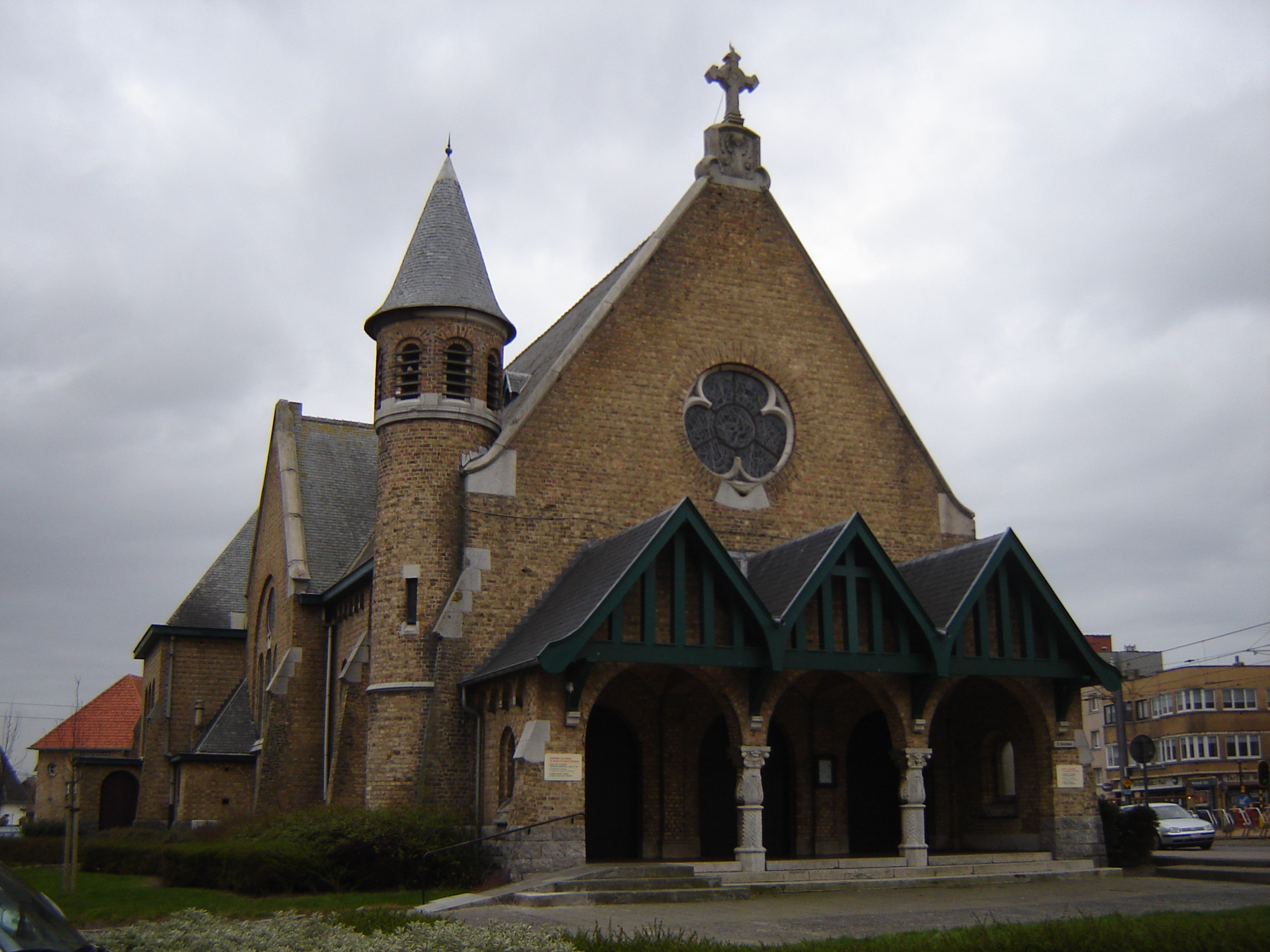 Church of Saint Theresia in Westende. Westende, Middelkerke, West Flanders, Belgium